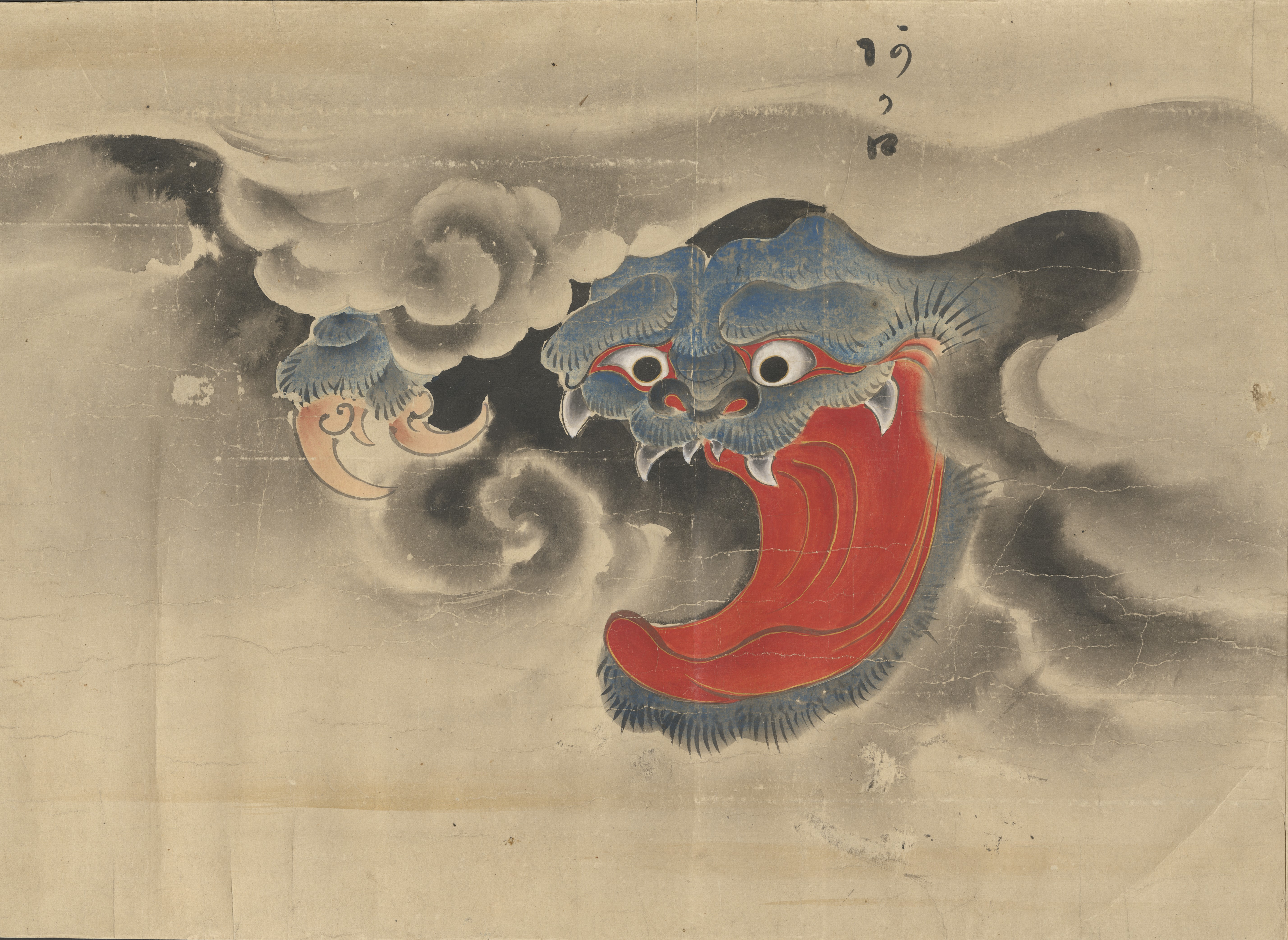 Akaguchi 赤口 from Bakemono no e (化物之繪, c. 1700), Harry F. Bruning Collection of Japanese Books and Manuscripts, L. Tom Perry Special Collections, Harold B. Lee Library, Brigham Young University.